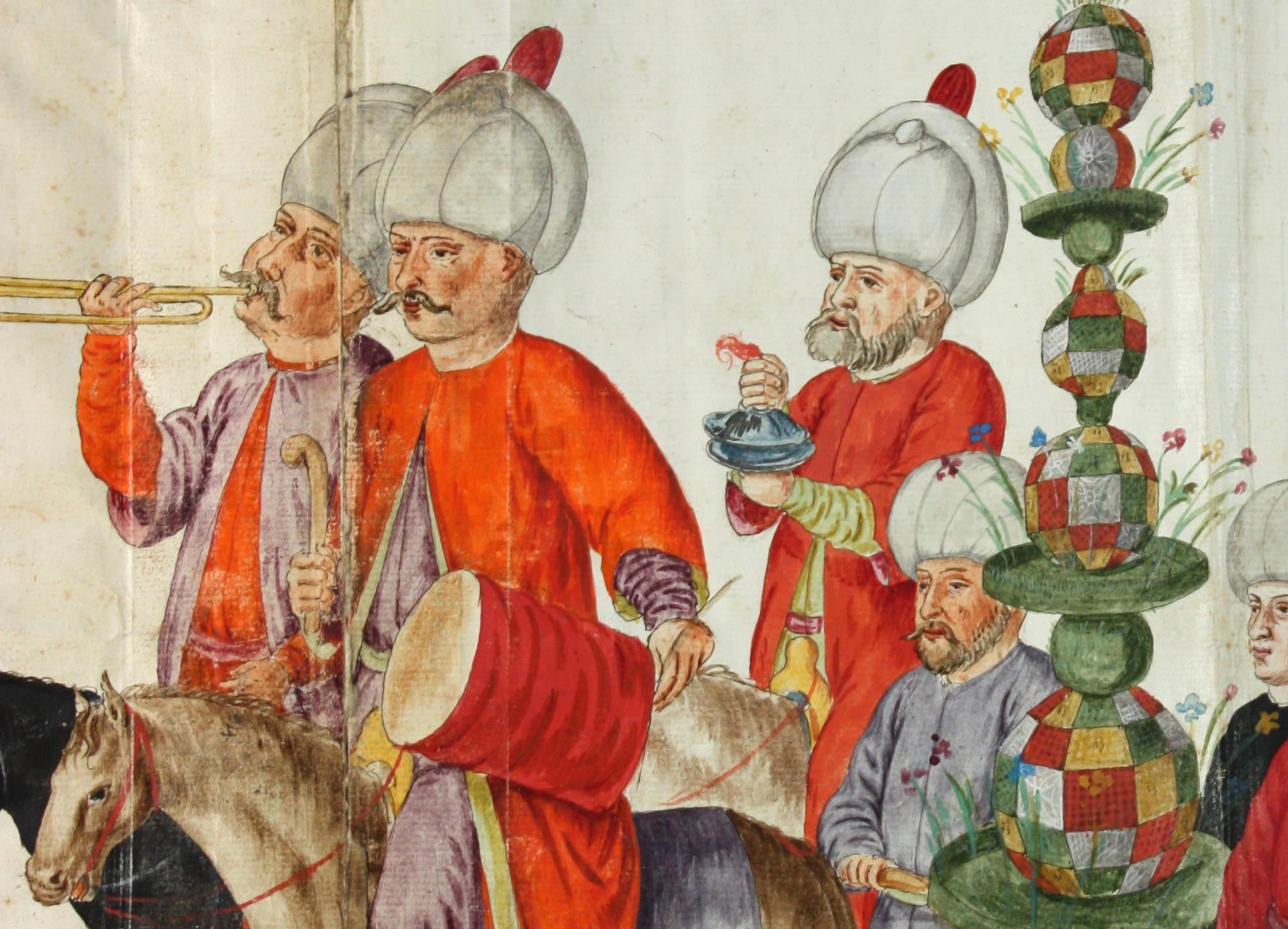 Illustration from Lambert de Vos' "Kostumbuch" from 1574, now in the Staats- und Universitätsbibliothek Bremen